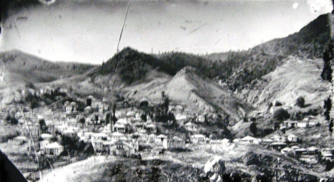 Panorama of the village Perivoli, 1898 (Damaged glass plate) This media file is produced by Wikipedian in Residence in Category:Wikipedian in Residence at DARM in 2016.